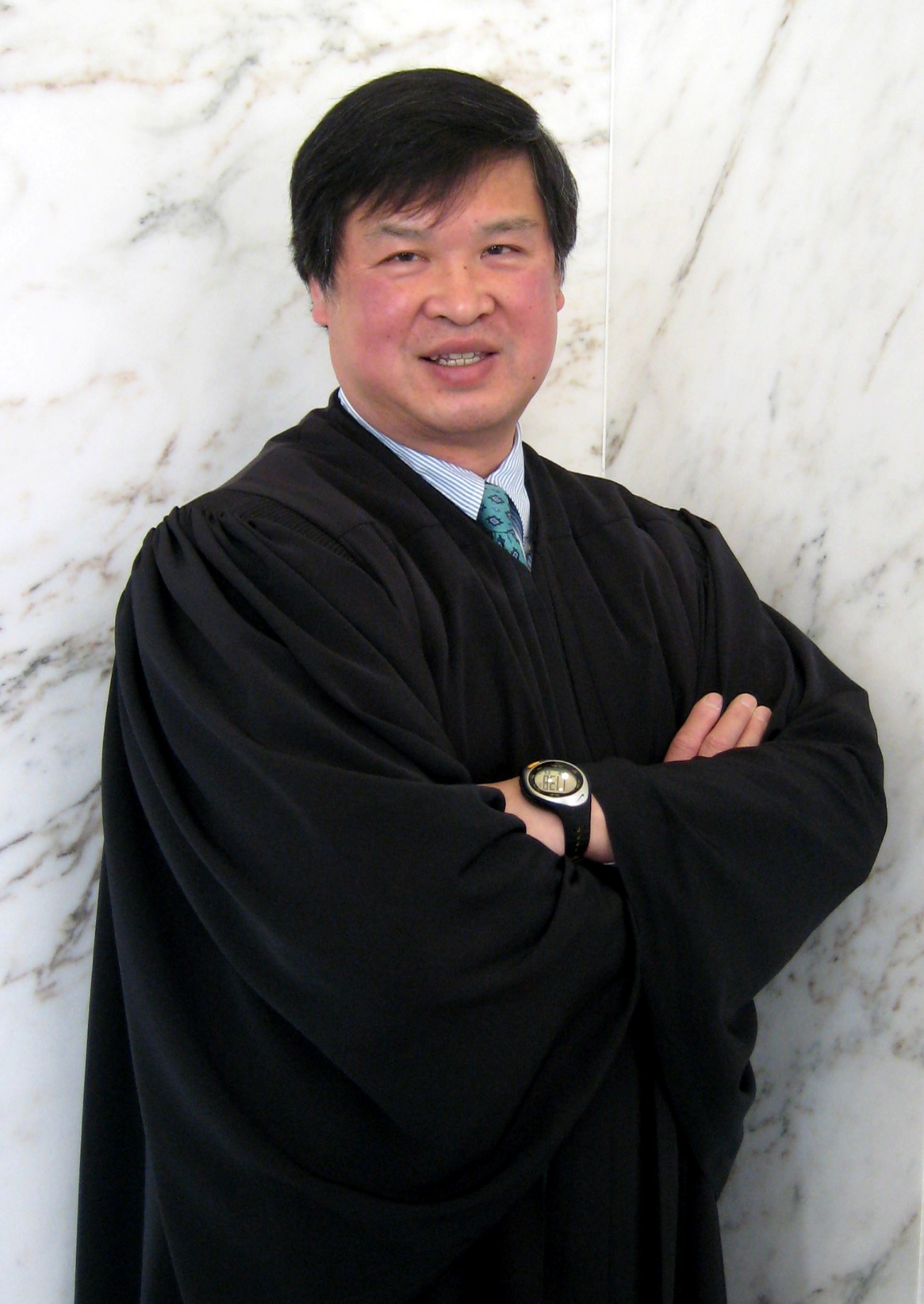 Denny Chin, judge on the United States District Court for the Southern District of New York.